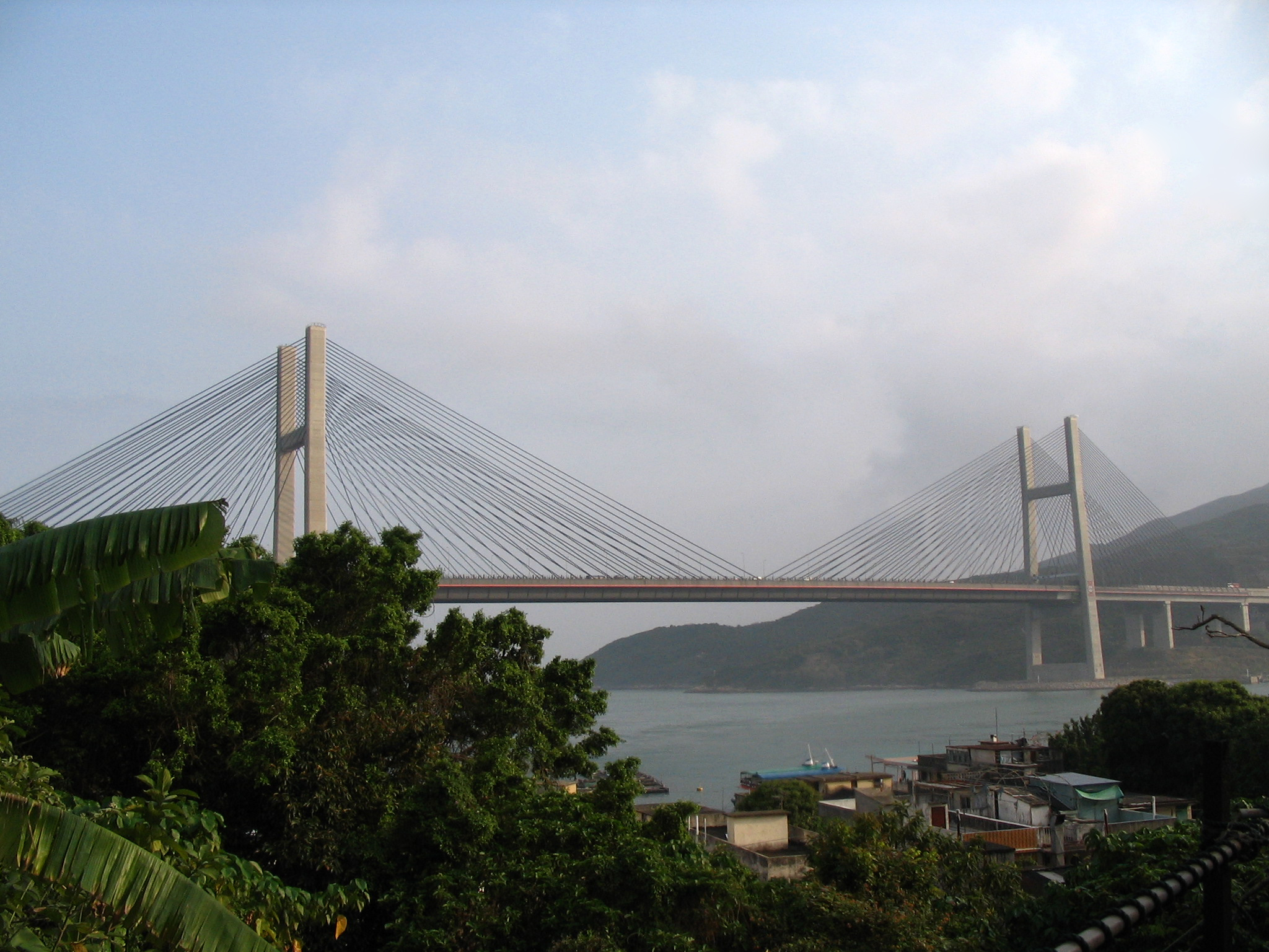 Photo of Kap Shui Mun Bridge